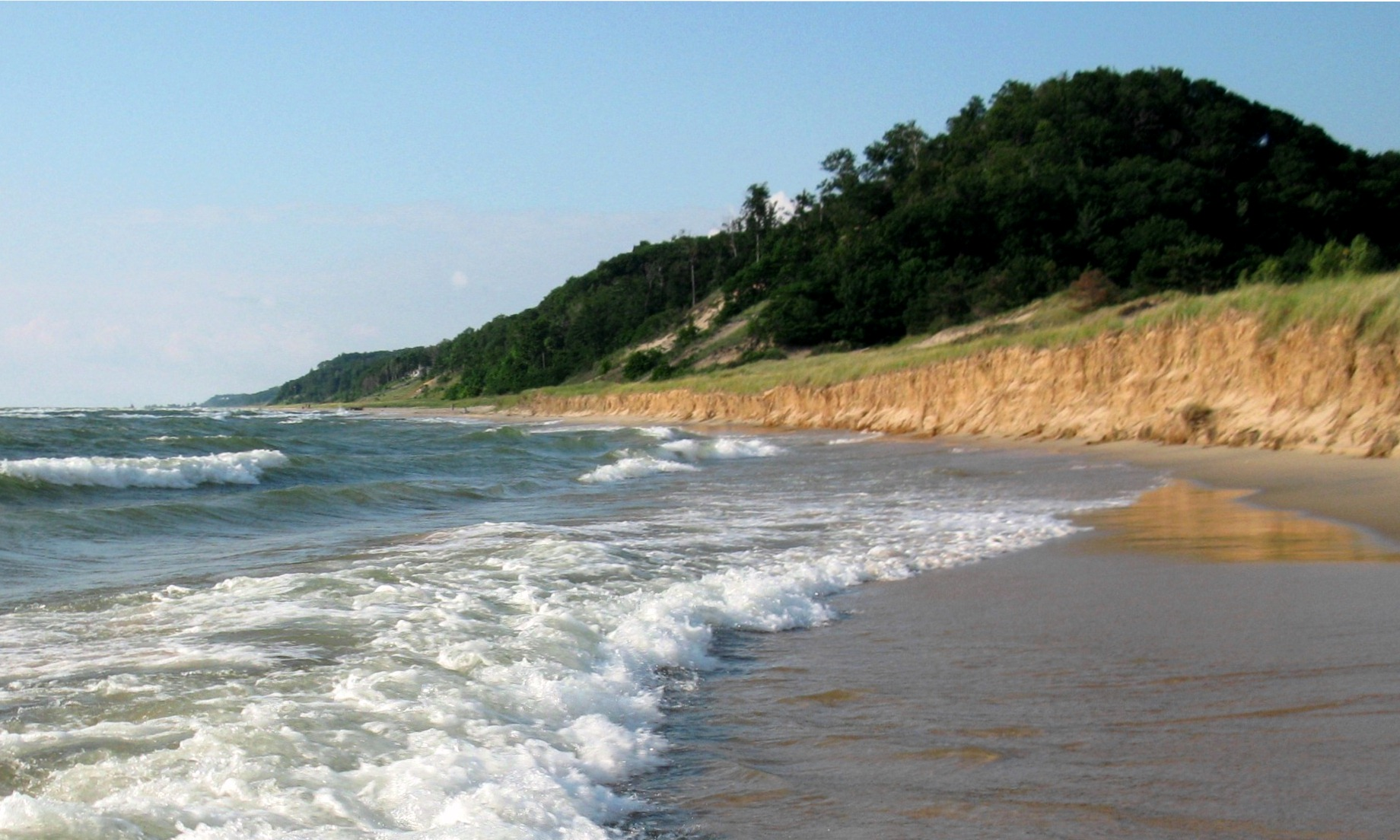 Shoreline and a large covered dune, looking north from one of the main paths to the shore, Saugatuck Dunes State Park, Michigan